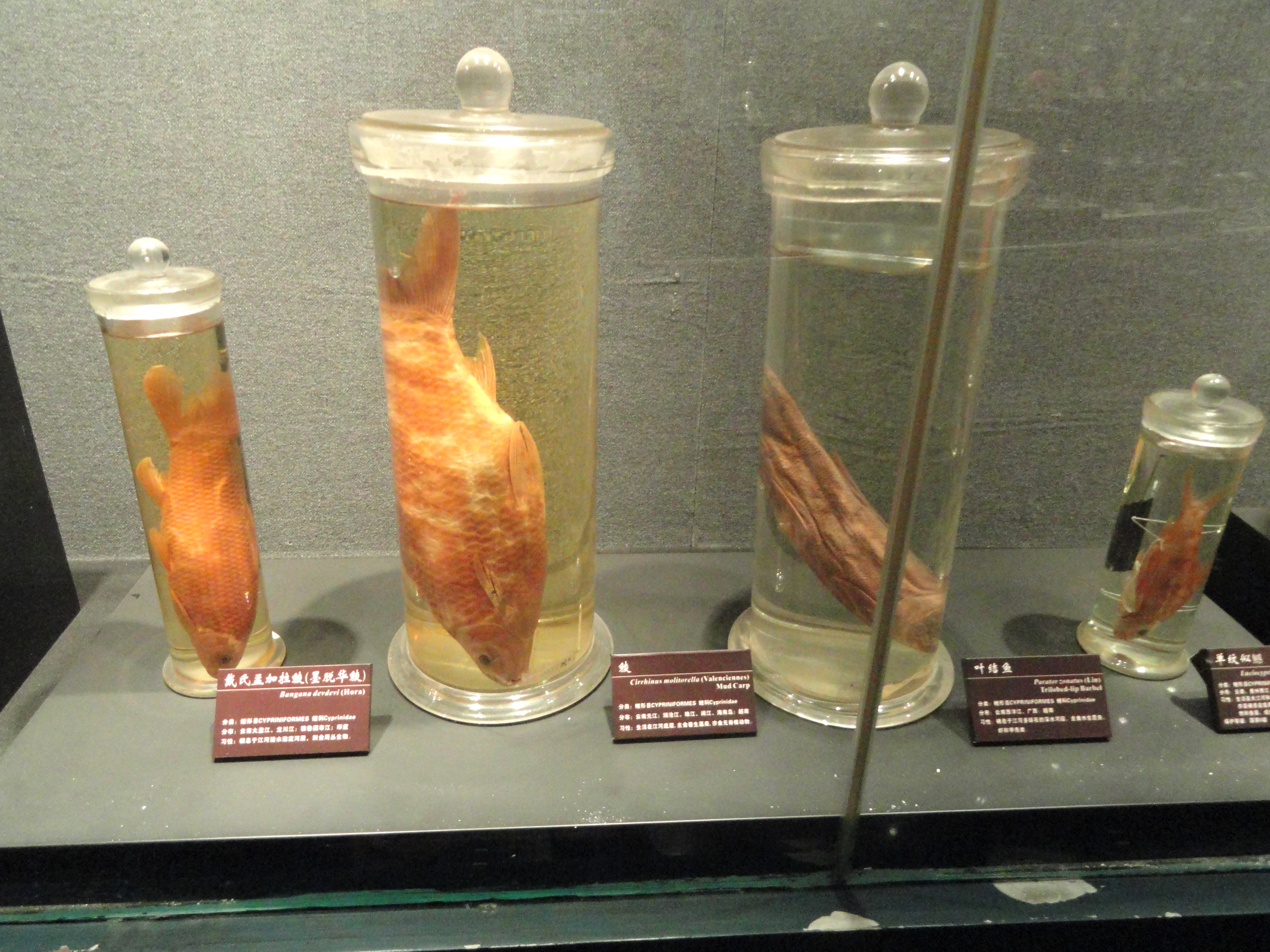 Preserved specimens in the Kunming Natural History Museum of Zoology (昆明动物博物馆), Kunming, Yunnan, China.